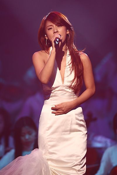 Lee Hyori at SBS Inkigayo in 2007.